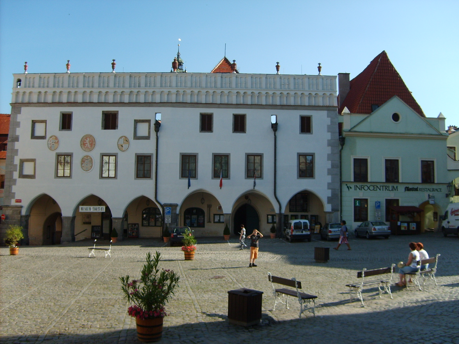 Townhall in Český Krumlov.